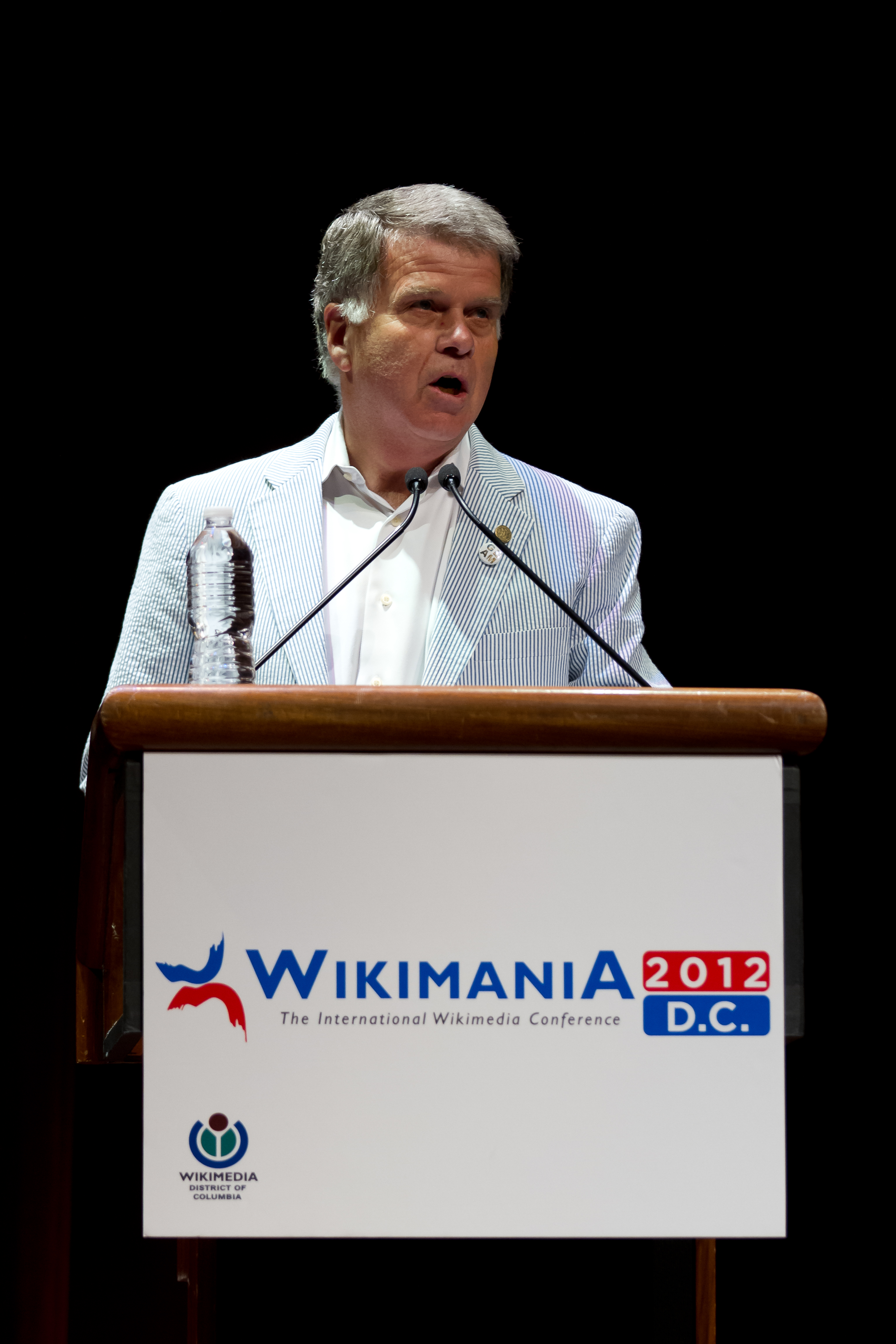 David Ferriero, 10th archivist of the United States of America, during the closing session of wikimania 2012, July 14th, 2012.